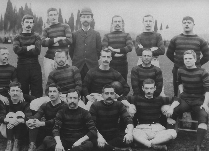 Smyrna Football Club 1890s